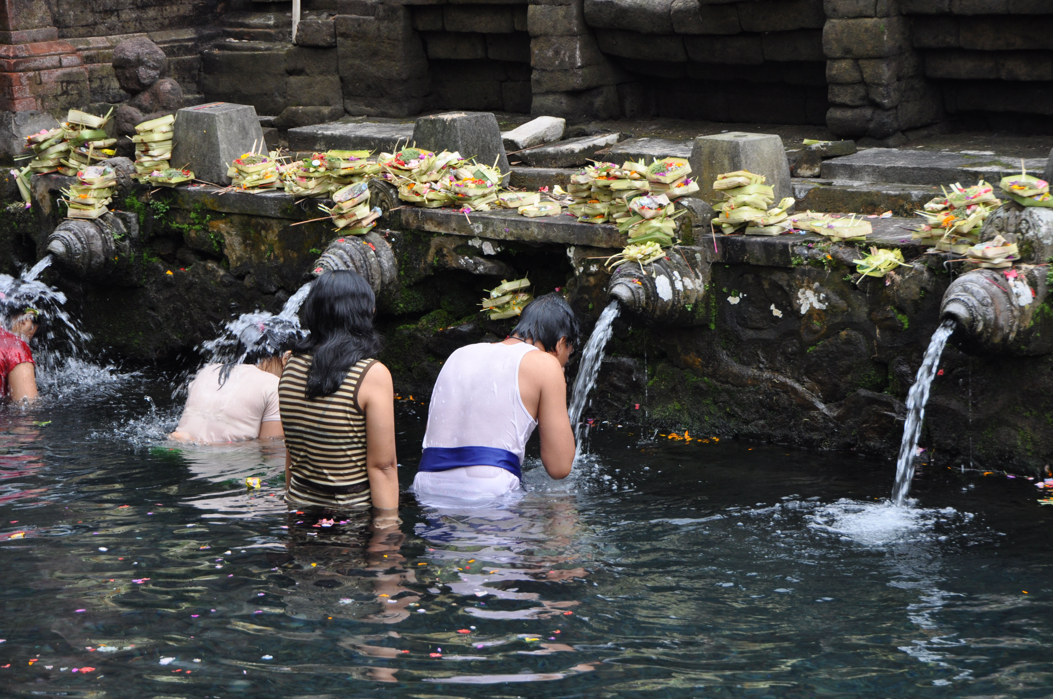 Tirtha Empul Temple - Purification Pool, Bali, Indonesia